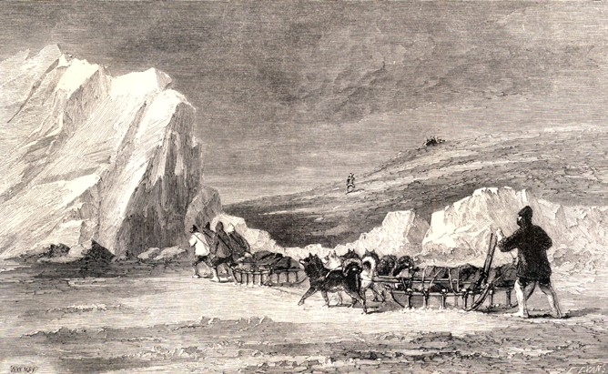 “McClintock's Travelling Party Discovering the Remains of Cairn at Cape Herschel""